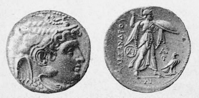 Coin of Alexandros IV Aigos, son of Alexandros III the Great. Macedonian kingdom.